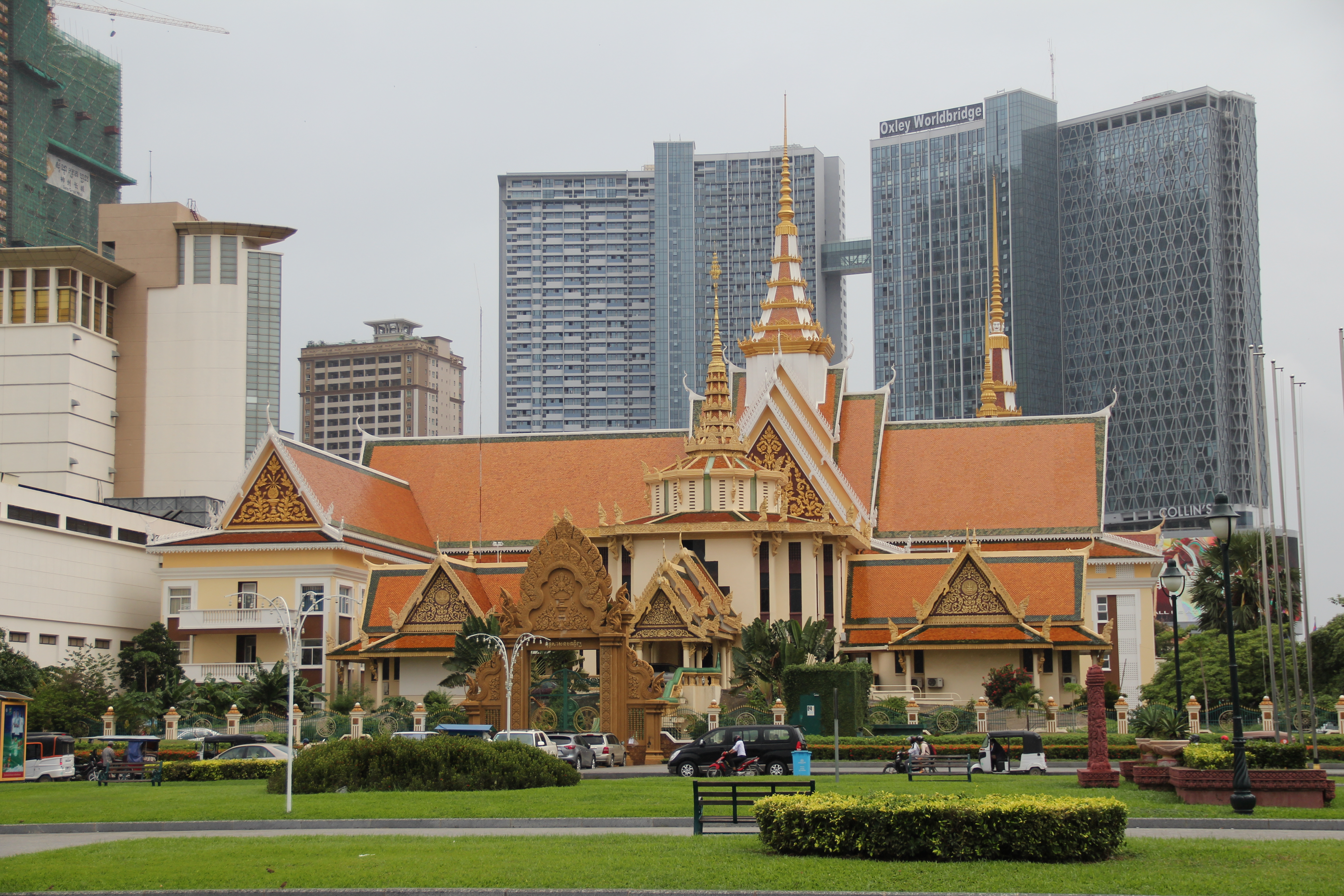 Buddhist Institute is a national library of Cambodia, located in Phnom Penh. ភាសាខ្មែរ: វិទ្យាស្ថានពុទ្ធសាសនបណ្ឌិត្យគឺជាបណ្ណាល័យជាតិមួយរបស់កម្ពុជា ដែលស្ថិតនៅរាជធានីភ្នំពេញ ។